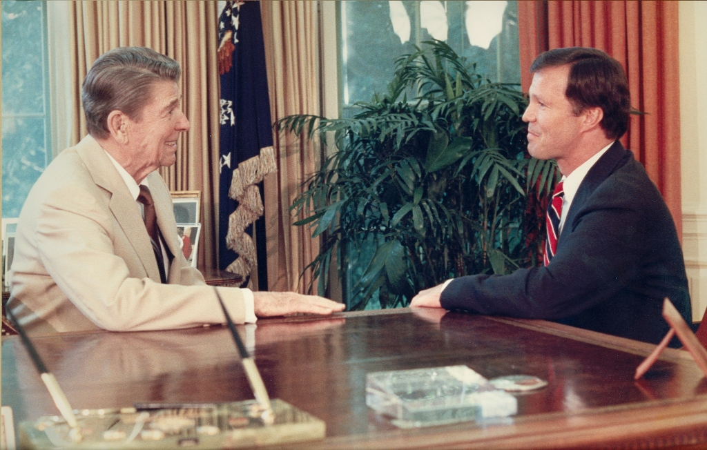 President Ronald Reagan and Senior Associate Counsel to the President Christopher Cox confer at the Resolute Desk in the Oval Office, 1988.